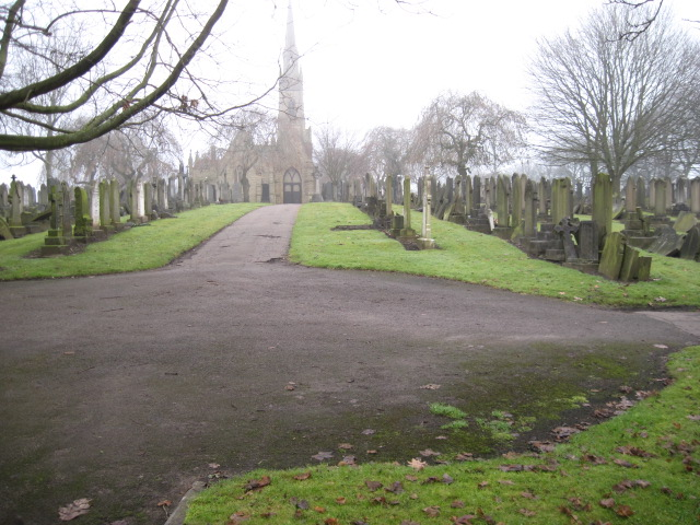 Stretford Cemetery by Bellamy and Hardy 1885